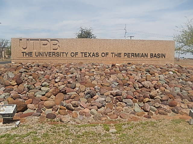 I took photo of UTPB entrance sign in Odessa, TX, with Nikon camera.